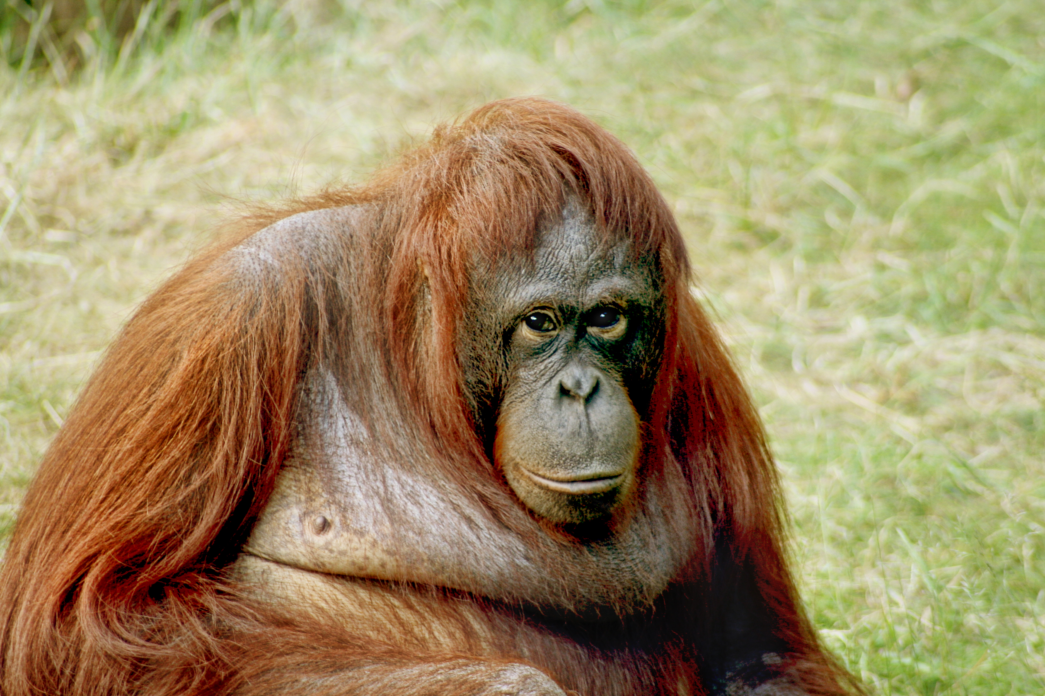 Borneo Orangutan (Pongo pygmaeus) Femal